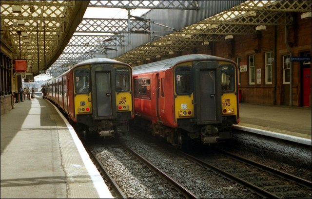 Paisley Gilmour Street station Class 318 EMU’s - 10.52 Largs Glasgow Central (left) and the 11.30 Glasgow Central – Ayr at Paisley Gilmour Street.